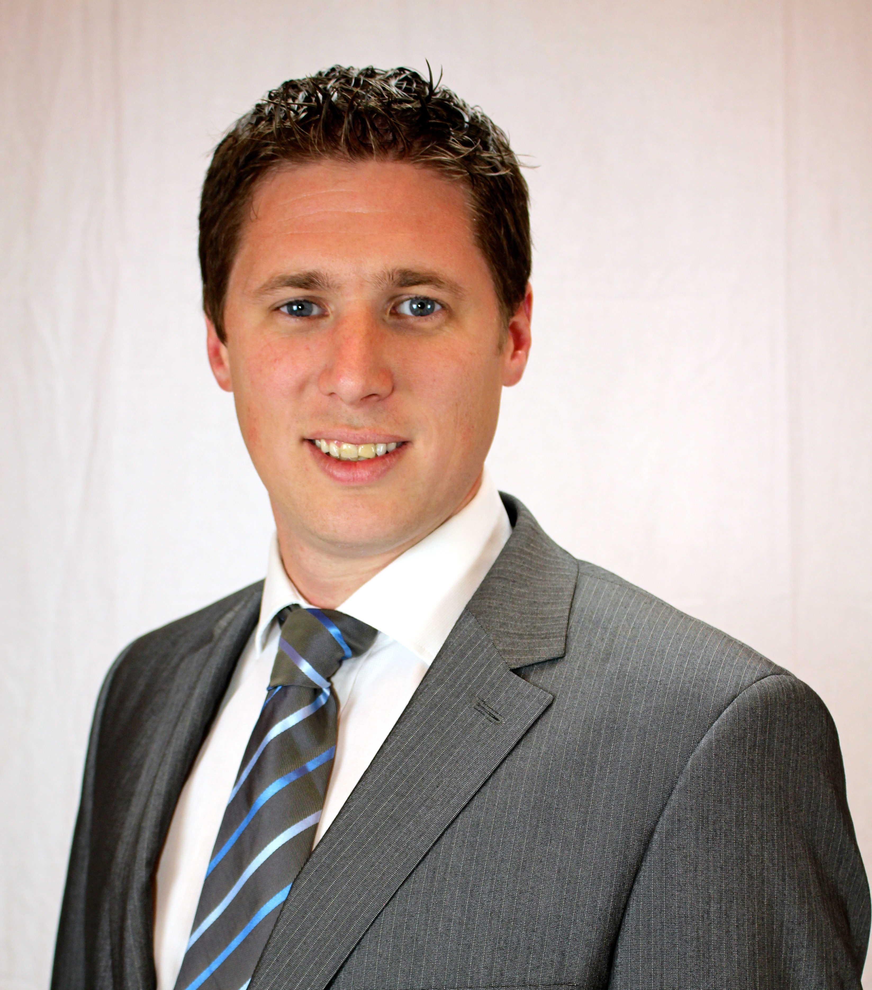 Matt Carthy, Sinn Féin EU Candidate for the Midlands–North West EU Constituency in the 2014 EU elections.